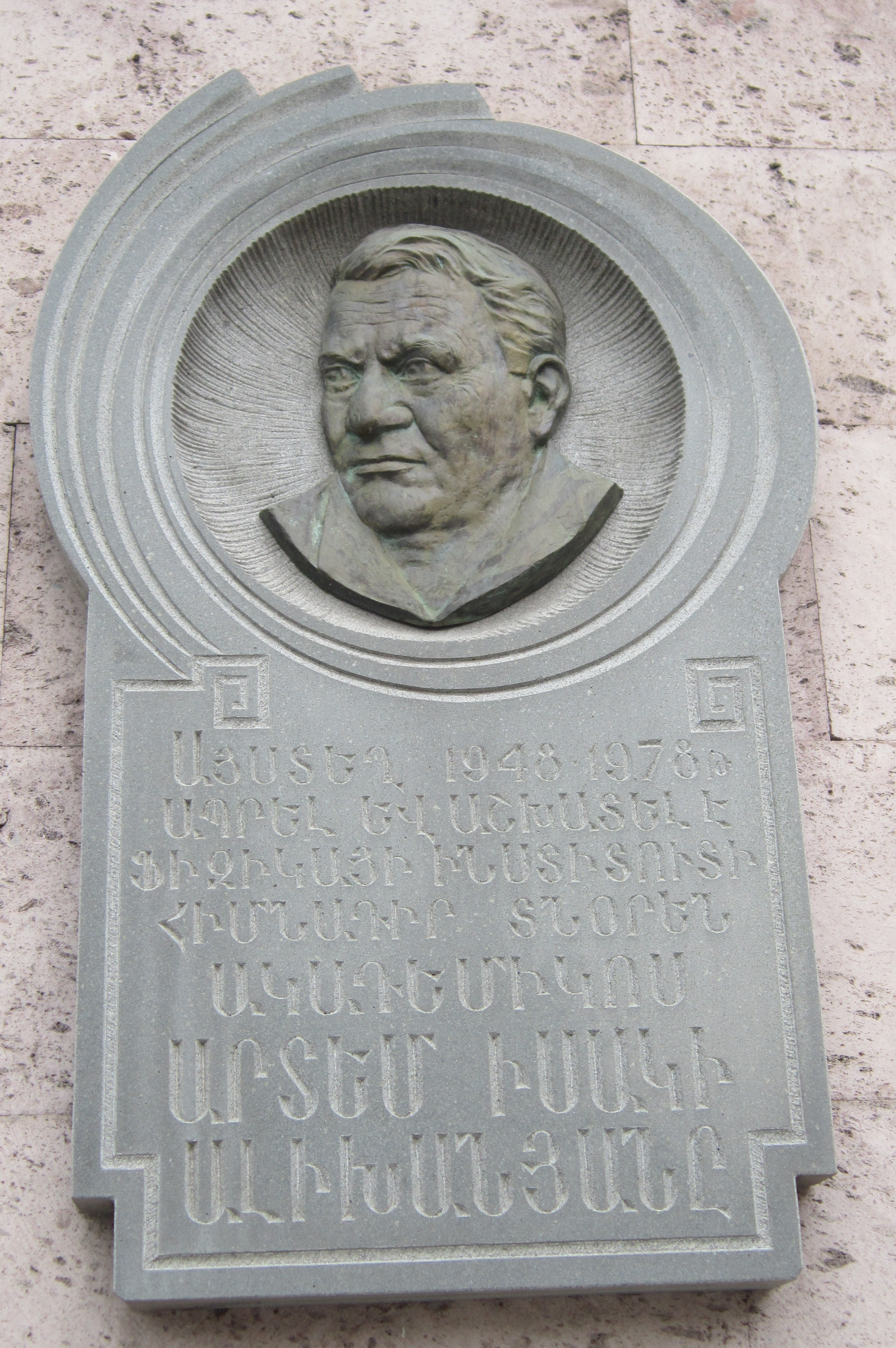 Artem Alikhanian plague